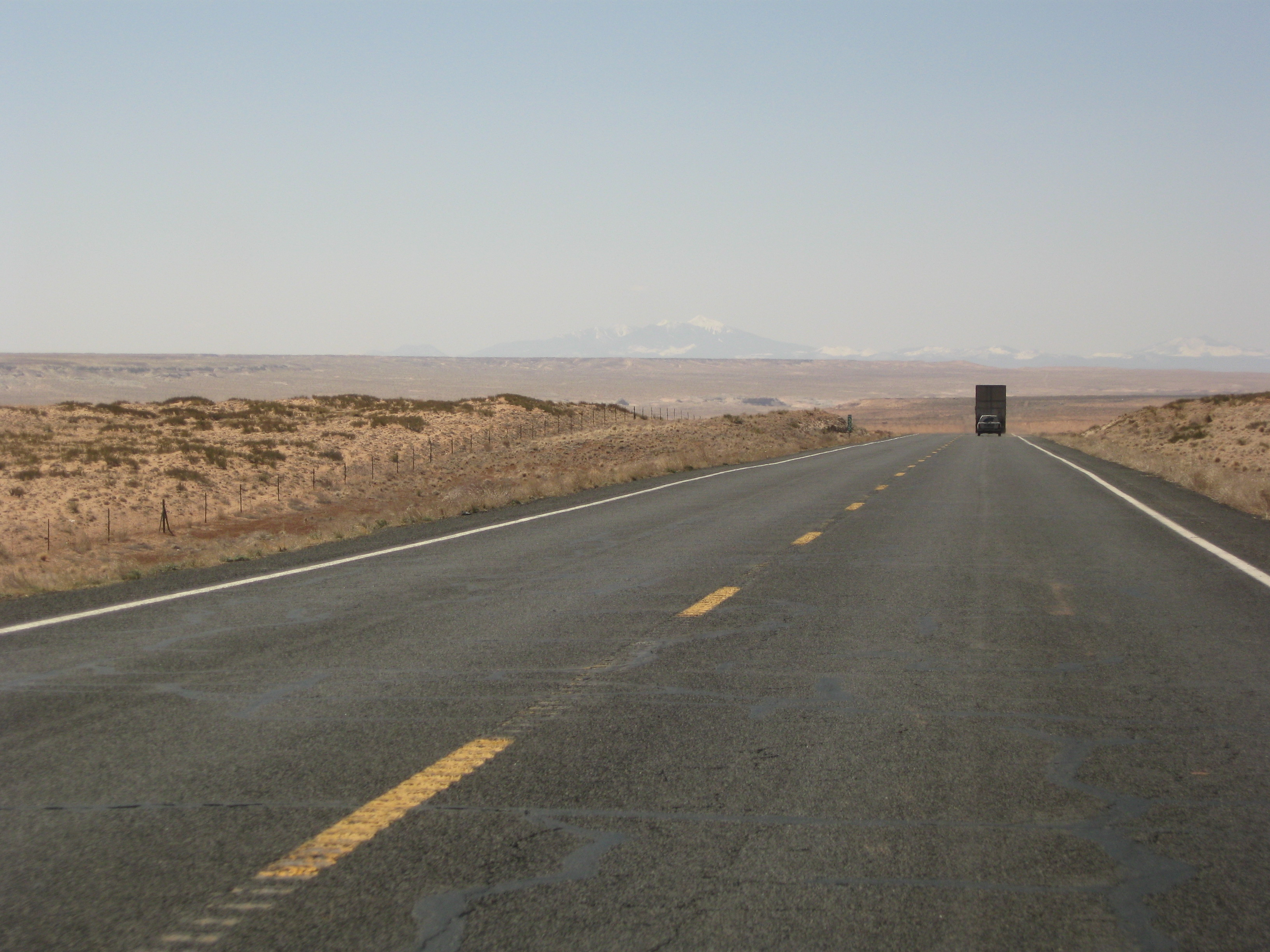 Highway and open space, Arizona